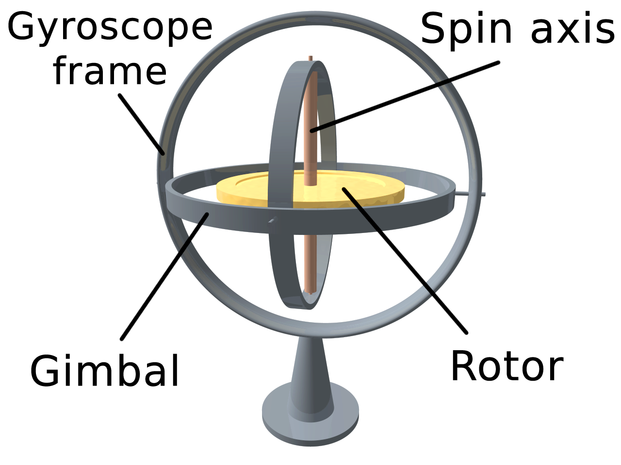 A 3D gyroscope rendered in POV-Ray. For a version without text, see Image:3D_Gyroscope-no_text.png